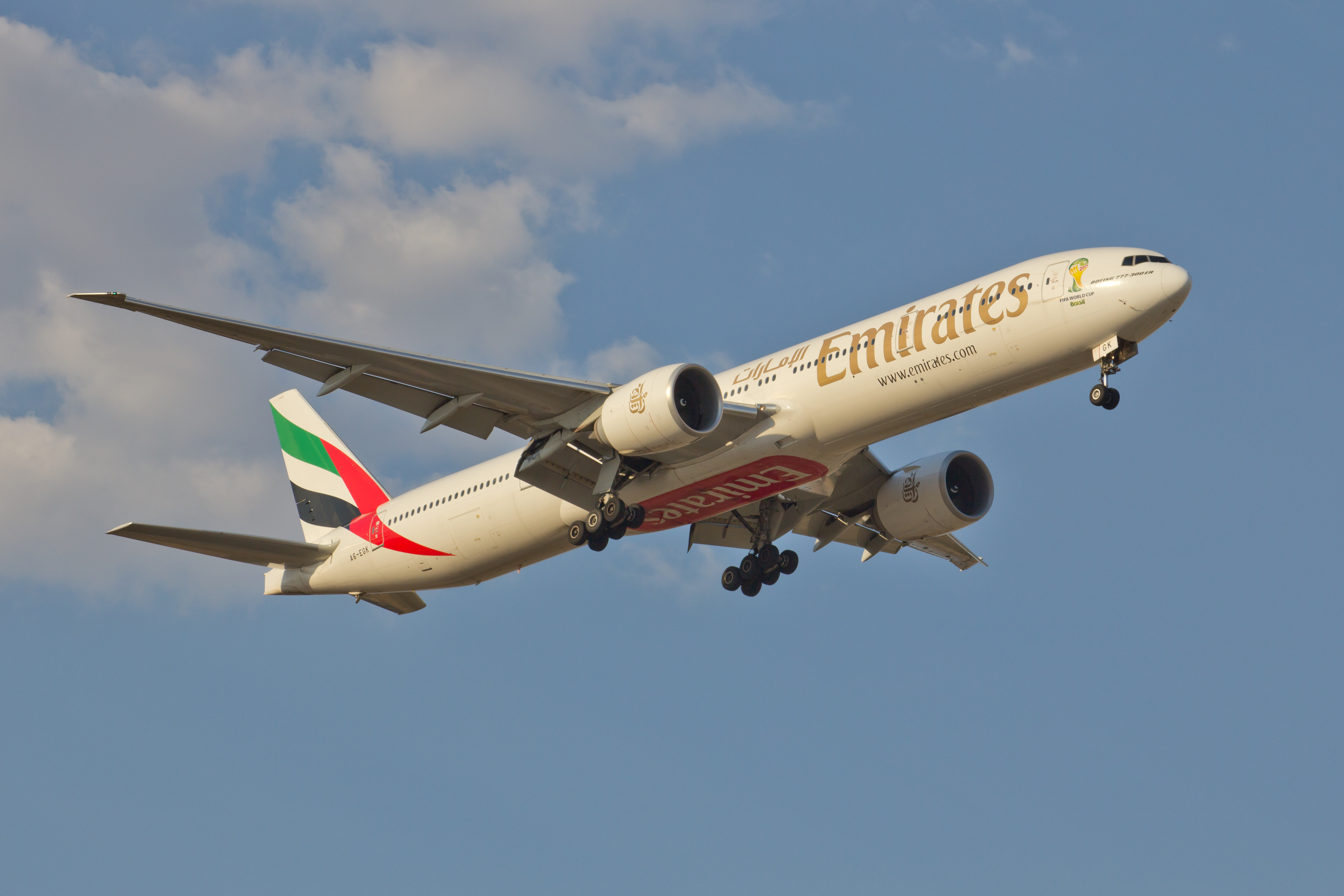 Boeing 777-31H/ER Emirates A6-EGK, Madrid, Spain.